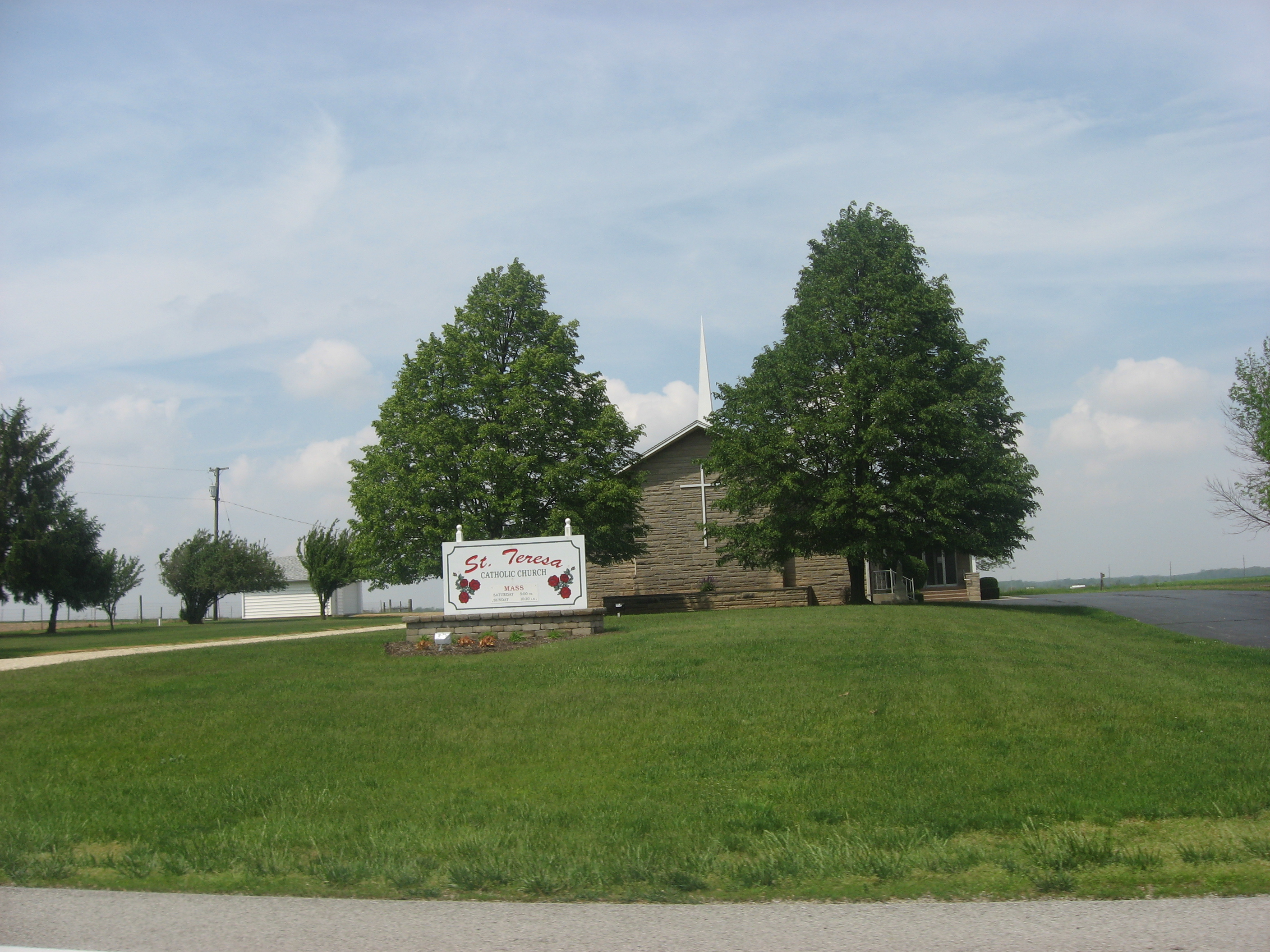 Front of the Church of St. Theresa, Little Flower of Jesus, located at 4227 State Route 707 southeast of Rockford in Dublin Township, Mercer County, Ohio, United States. It was built in 1937 for what is by far the newest parish in heavily Catholic Mercer County.